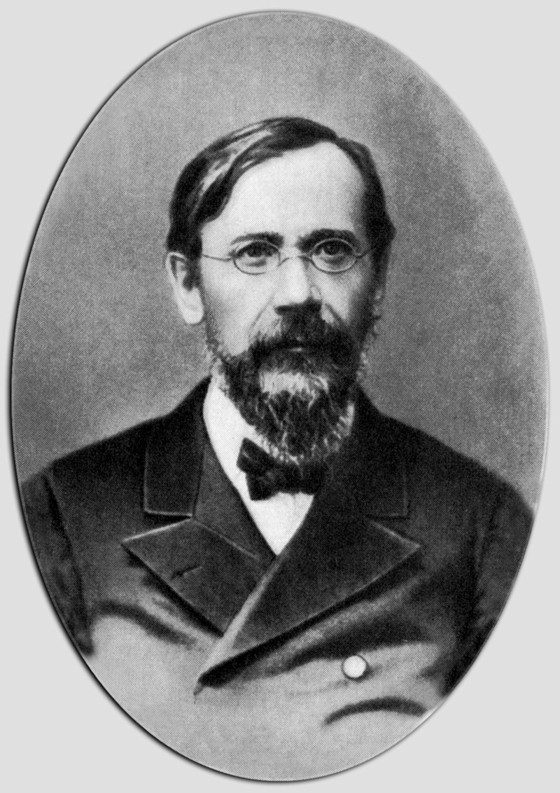 Russian historic Vasily Klyuchevsky